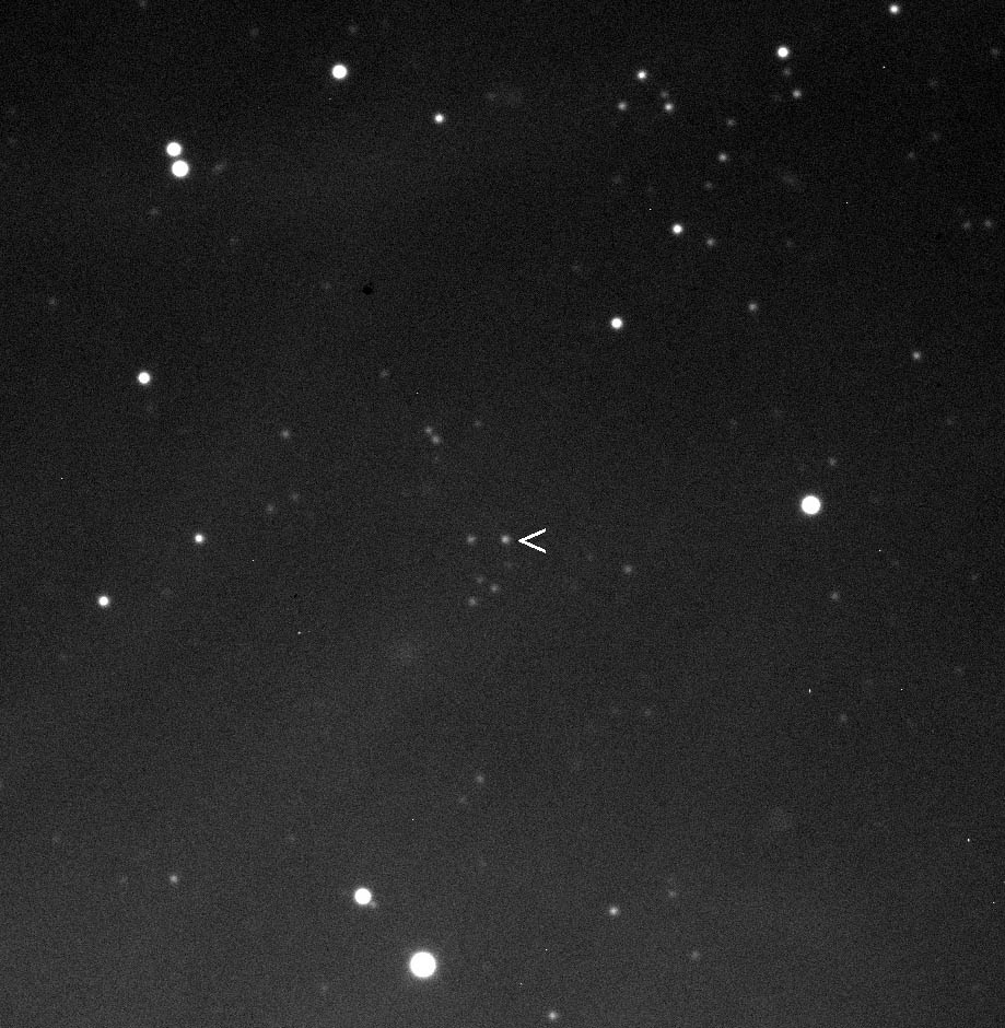 2 minute exposure of Jupiter's moon Elara with a 24" telescope. Elara is apparent magnitude 16.8 in this image taken at 2009-10-21 03:00 UT. The glow at the bottom of the image is from Jupiter (which is not in the photo).